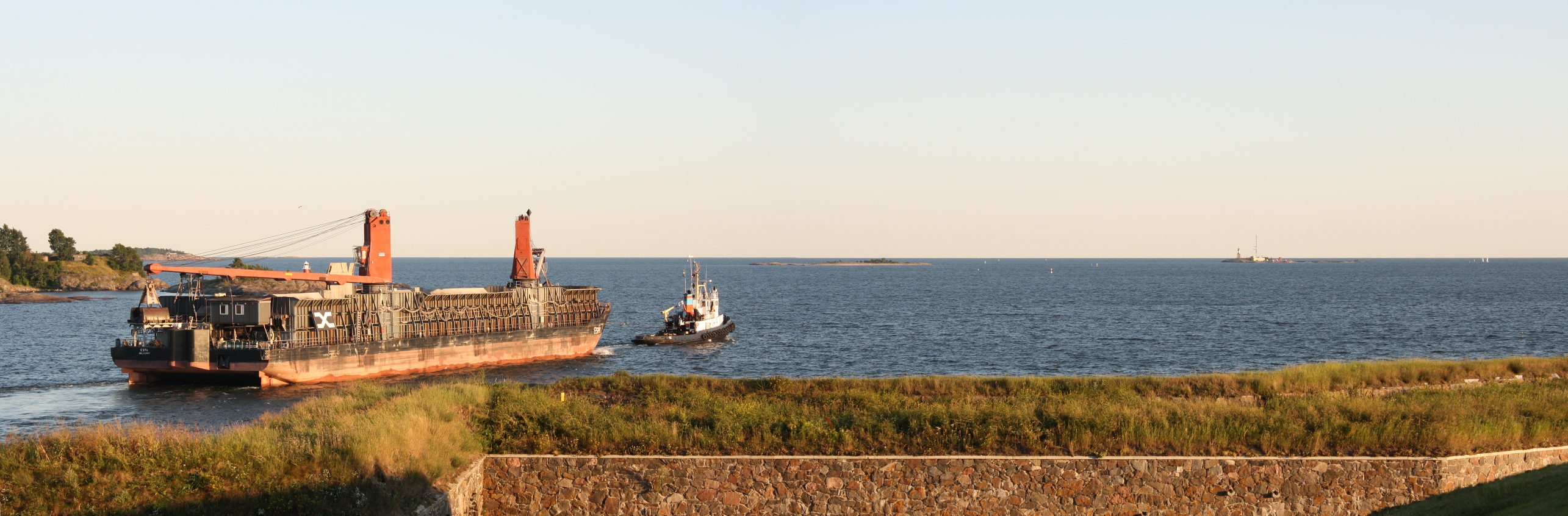 Coal barge Espa exiting the Kustaanmiekka strait in Suomenlinna, Helsinki shortly before sunset.